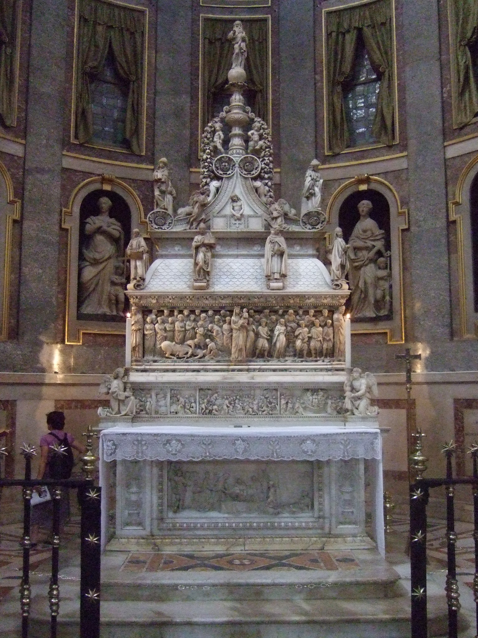 Shrine of Saint Dominic, Basilica of Saint Dominic, Bologna